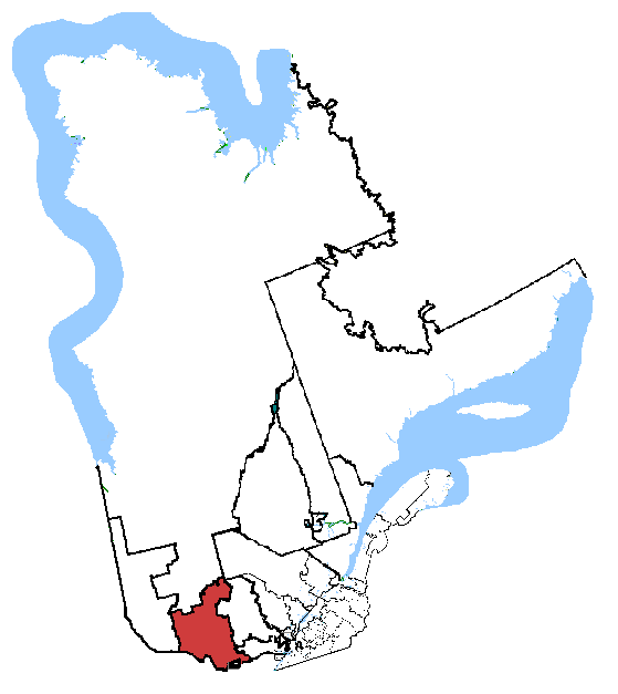 Map of the Pontiac electoral district. Based on Earl Andrew's maps, created by SimonP.